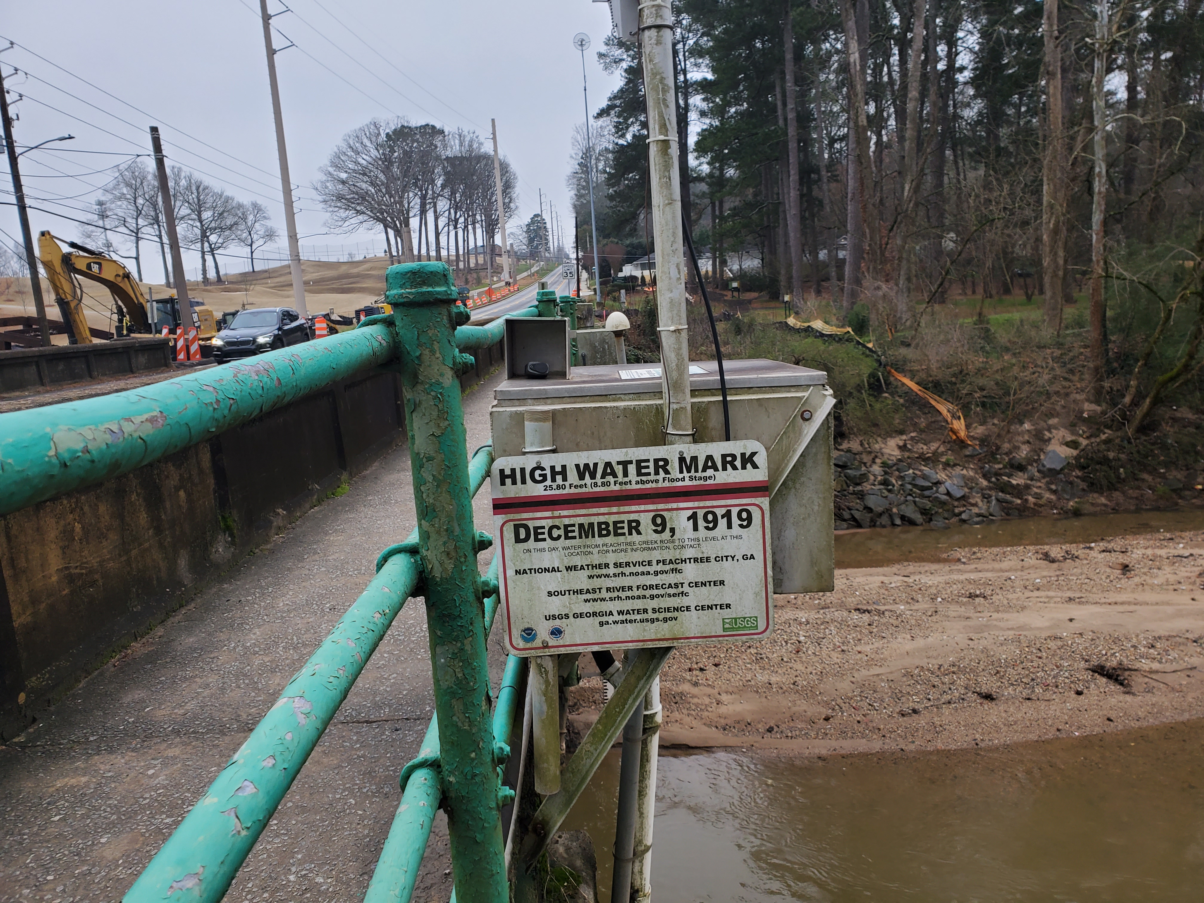 A sign showing the high water mark on Peachtree Creek in Atlanta GA from the 1919 flood. Near the corner of Northside Drive and Woodward Way.